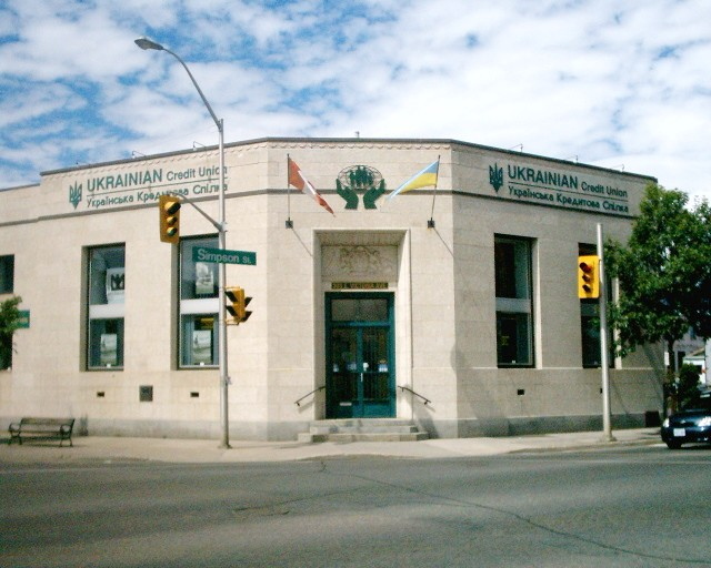 Ukrainian Credit Union in Thunder Bay, Ontario